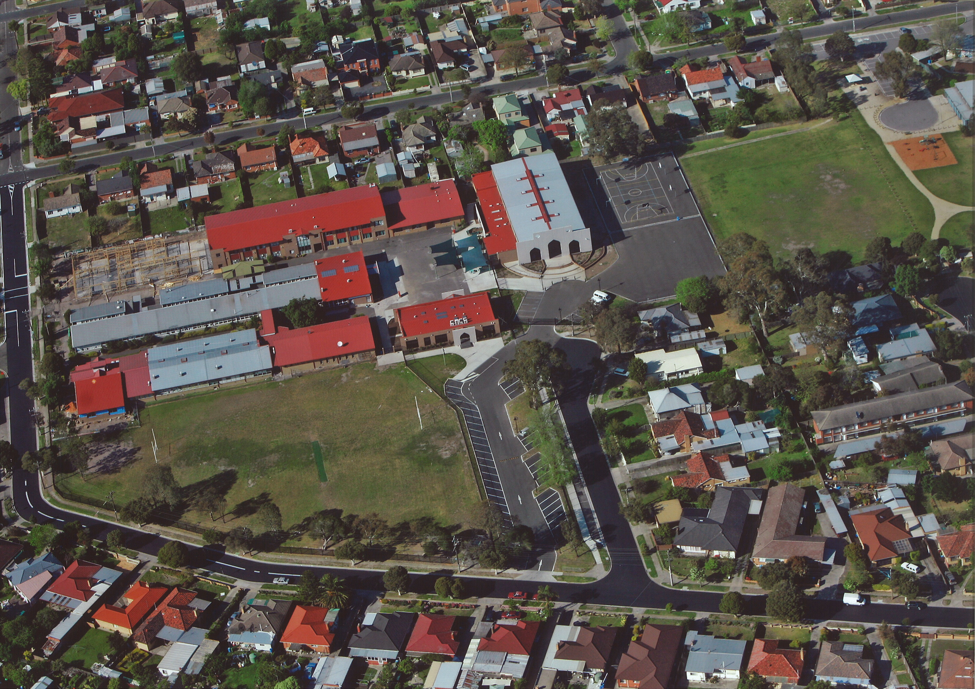 Aerial View of Minaret Springvale Campus